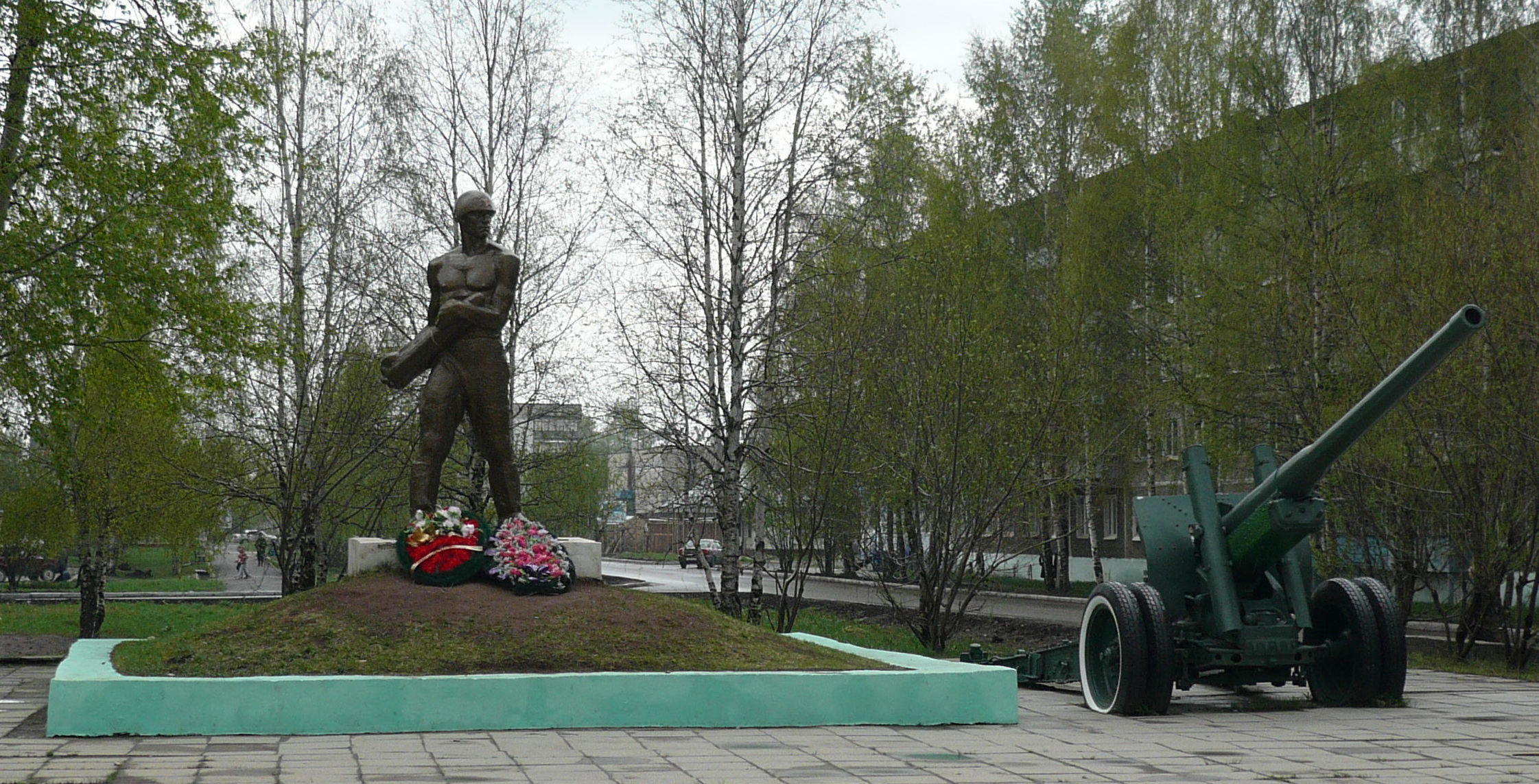 Памятник Ладкину